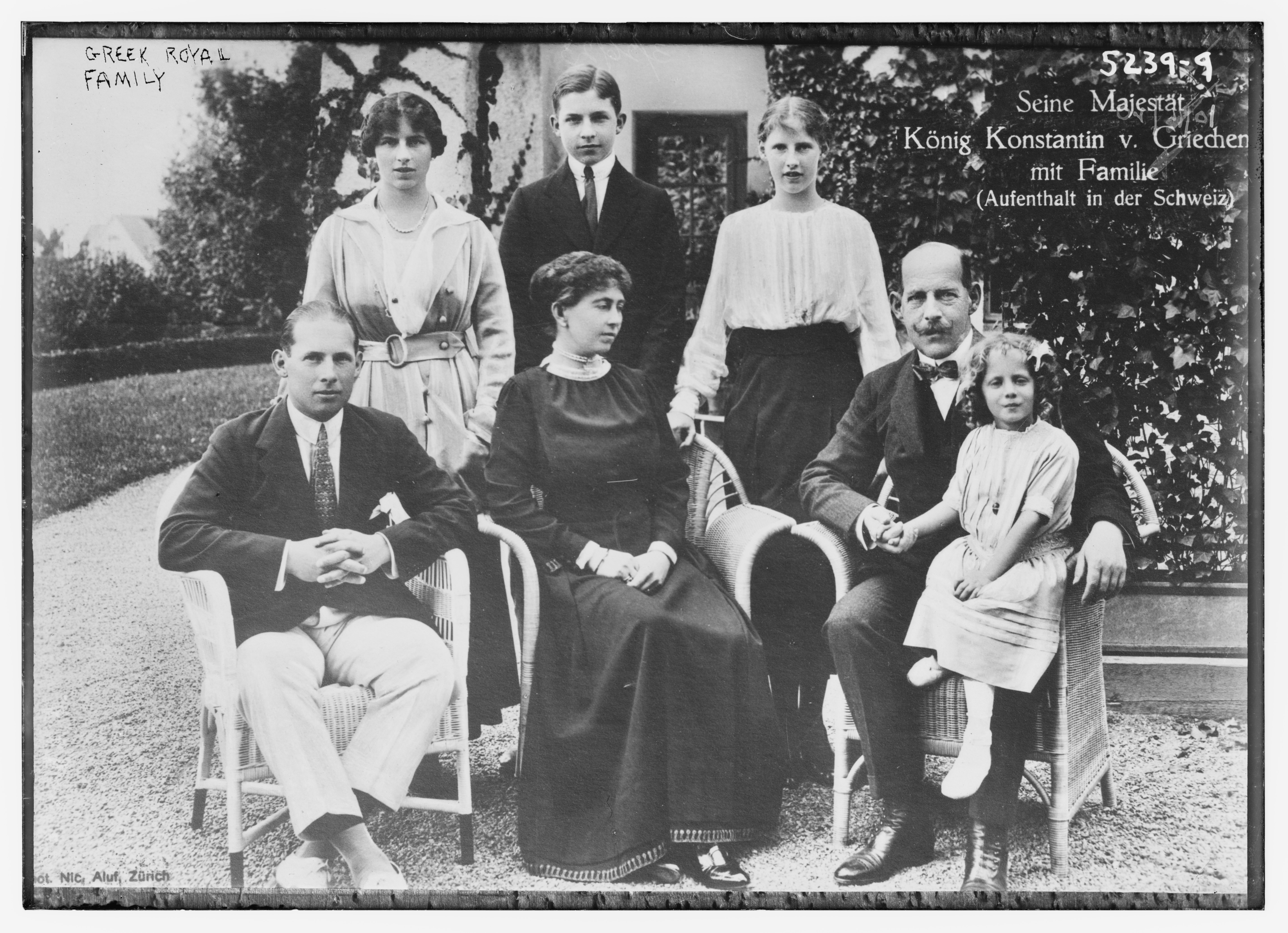 Title: Greek Royal Family Abstract/medium: 1 negative : glass ; 5 x 7 in. or smaller.